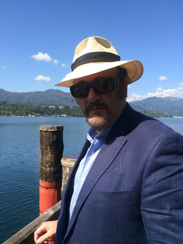 Phoo oauto GuoMin di sSoro at Lake Orta, Italy, September 2015